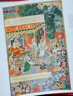 Ramayana of Akbar at jaipur